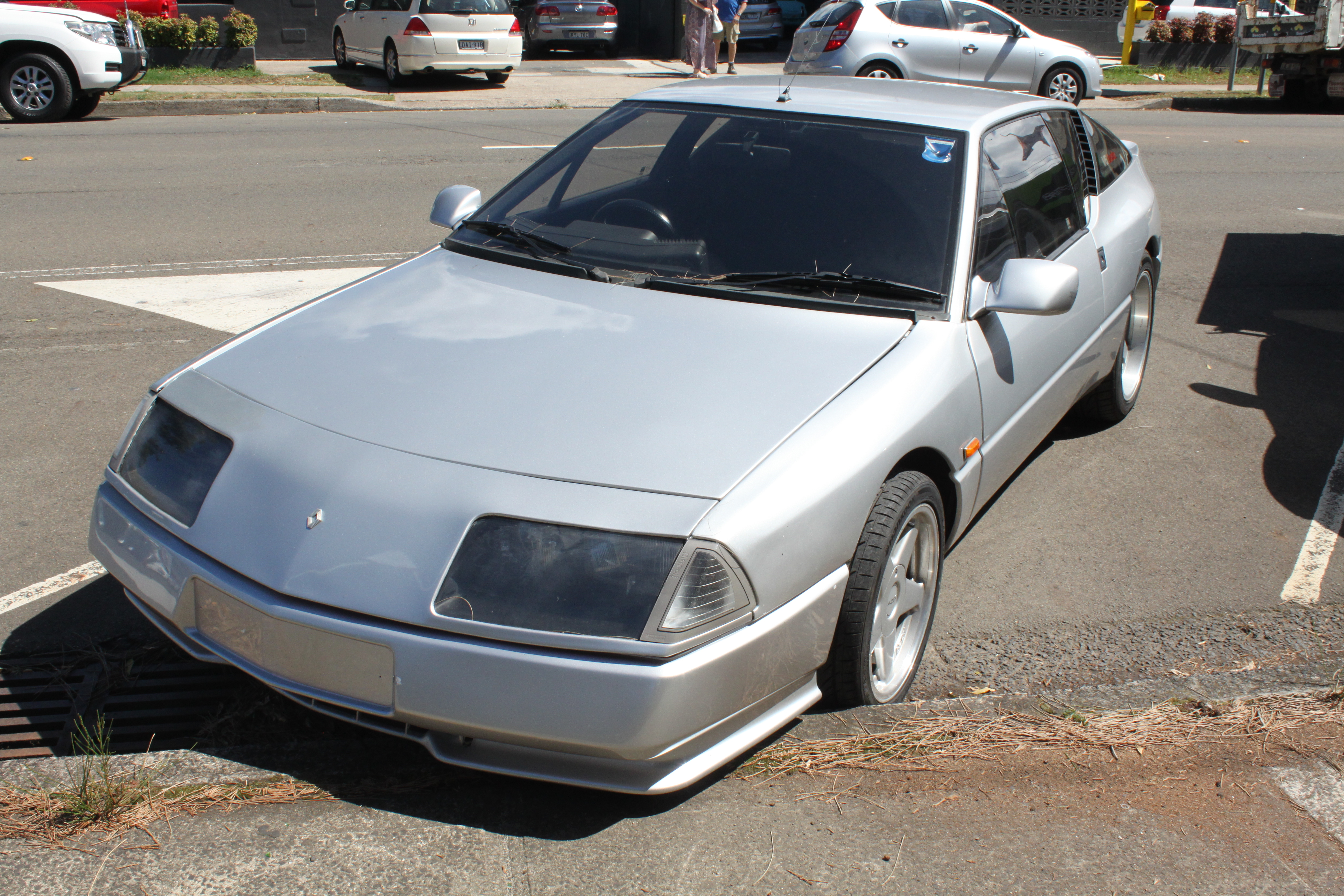 Vehicle registration enquiry results Jurisdiction United Kingdom Registration E29MTP Engine code 2450 cc Compliance date 1988-01-01 (first registered) Year of manufacture 1987